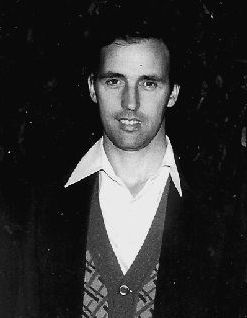 Paul Keating in his 30's.